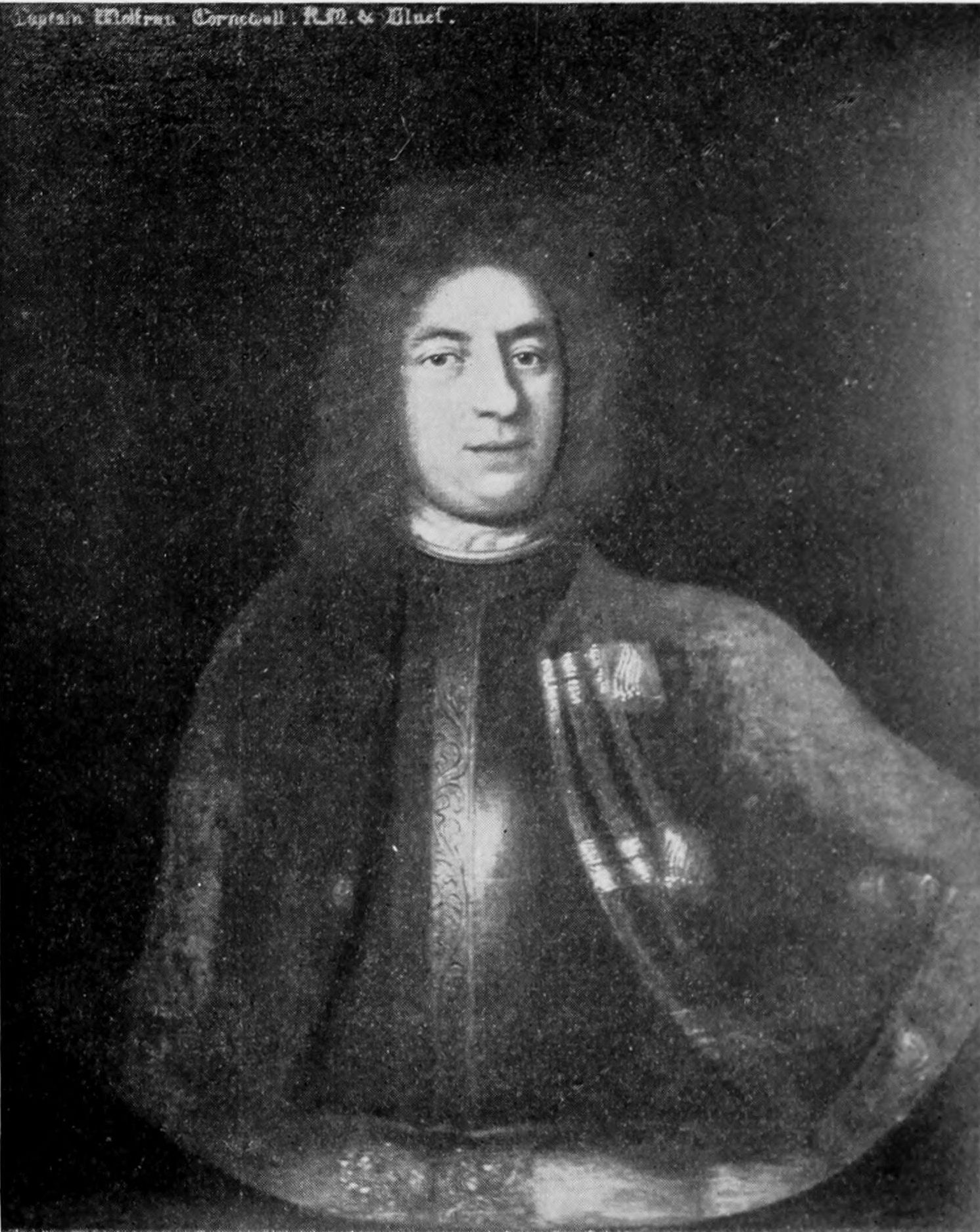 Portrait of Captain Wolfran Cornewall RN (1658-1720)